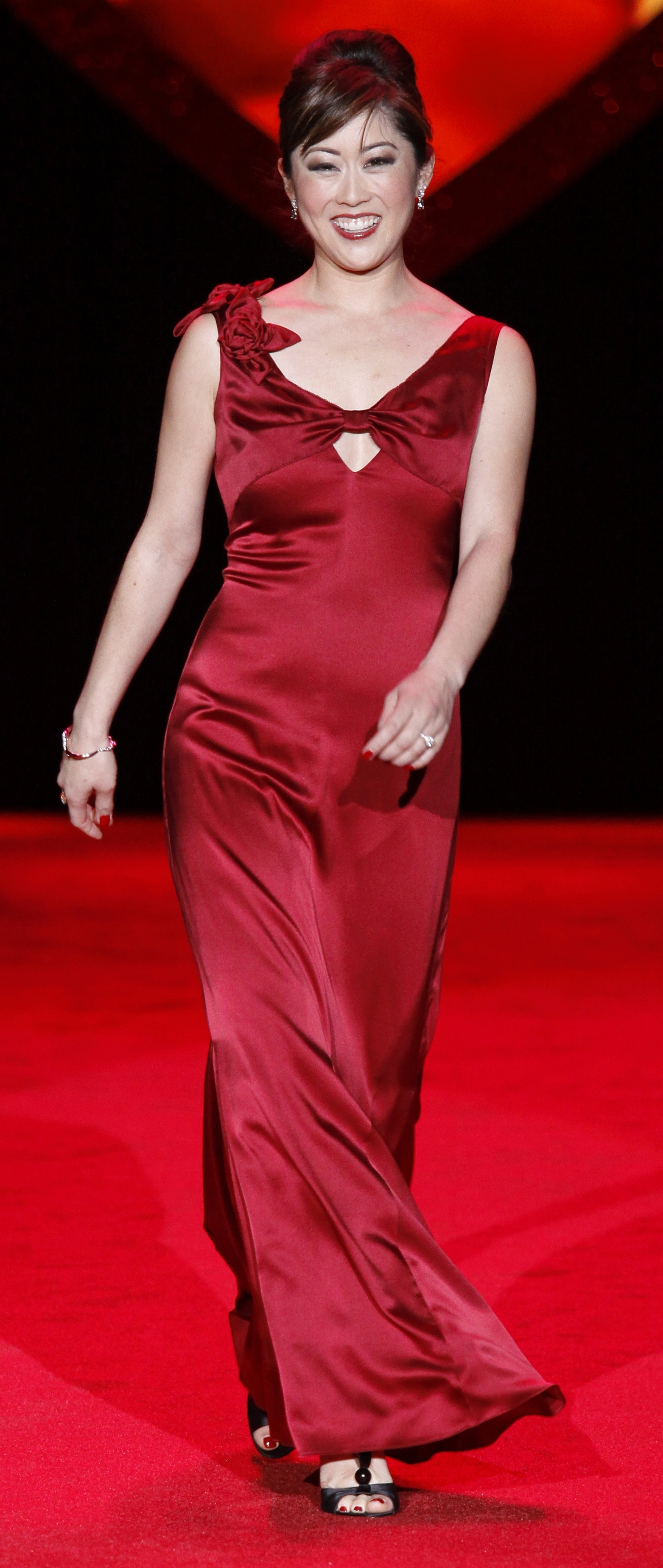 Backstage at The Heart Truth's Red Dress Collection Fashion Show during New York Fashion Week. February 13, 2009 at Bryant Park.